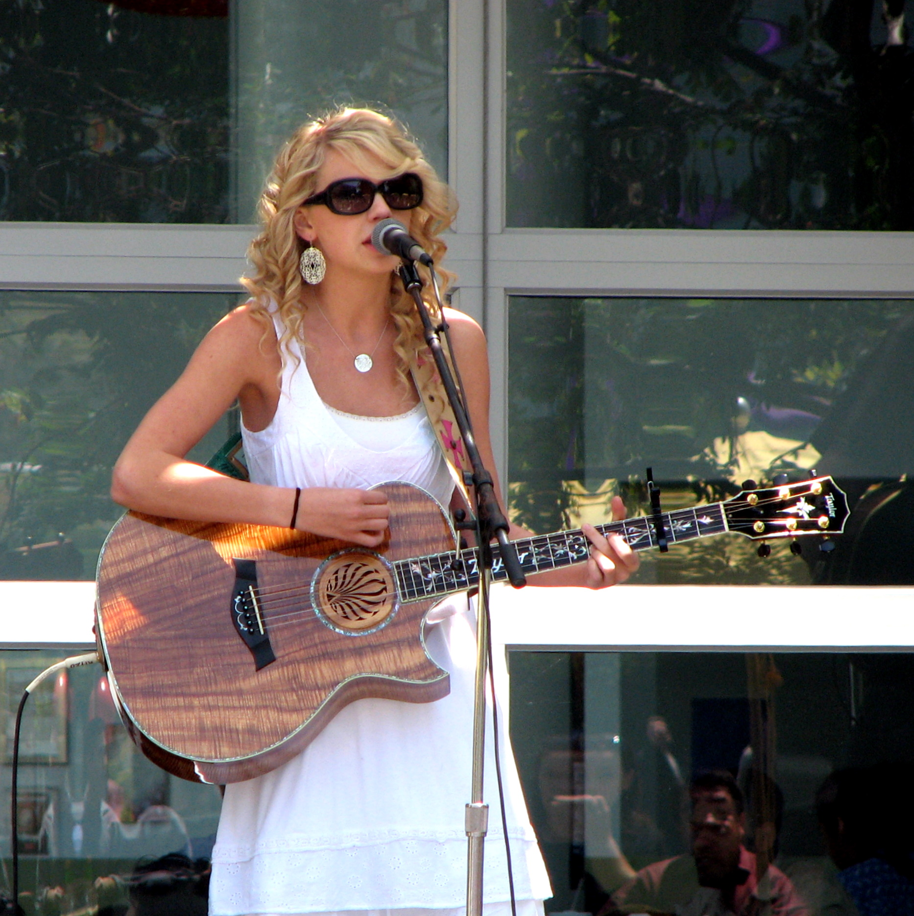 U.S. Country music singer Taylor Swift performing at Yahoo headquarters